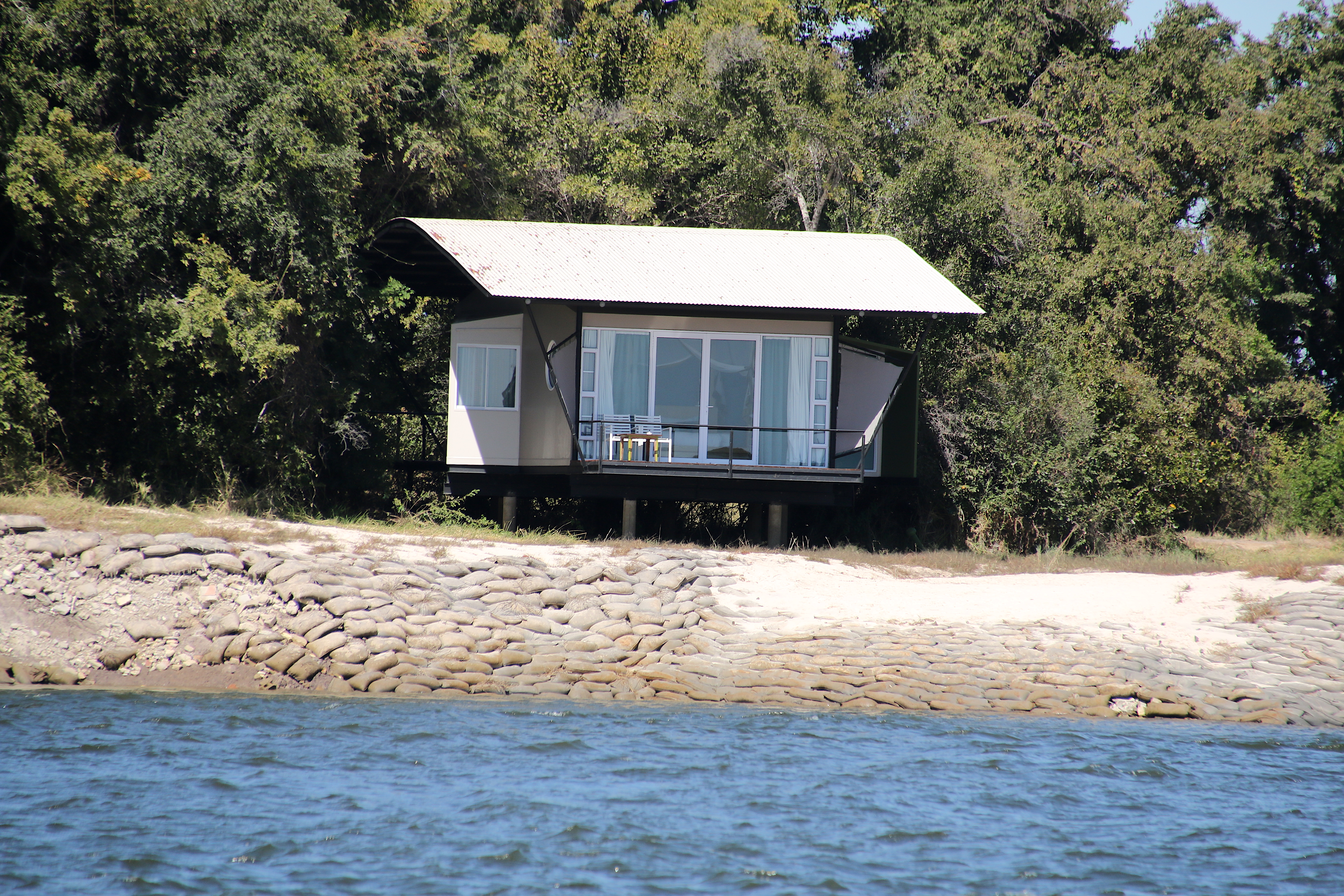 Zambezi Mubala Lodge (2018)